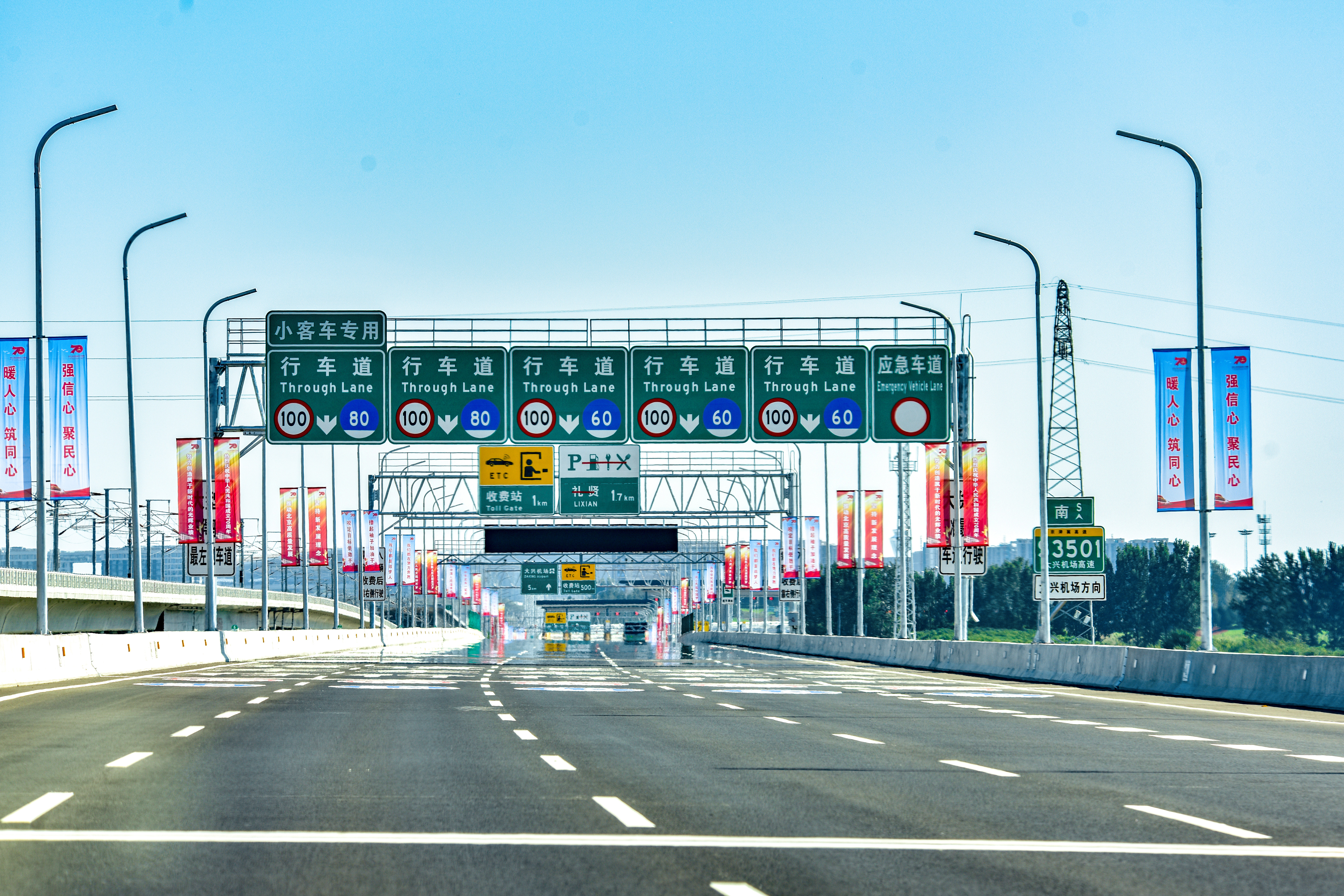 1km to toll plaza.